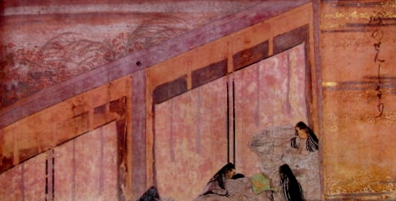 Part of the Murasaki Shikibu Diary Emaki. The image shows part of the painting corresponding to the fourth scene (第4段絵) of the Hachisuka edition (蜂須賀家本)